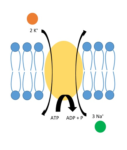 3 sodium ions are pumped out, while 2 potassium ions are pumped in